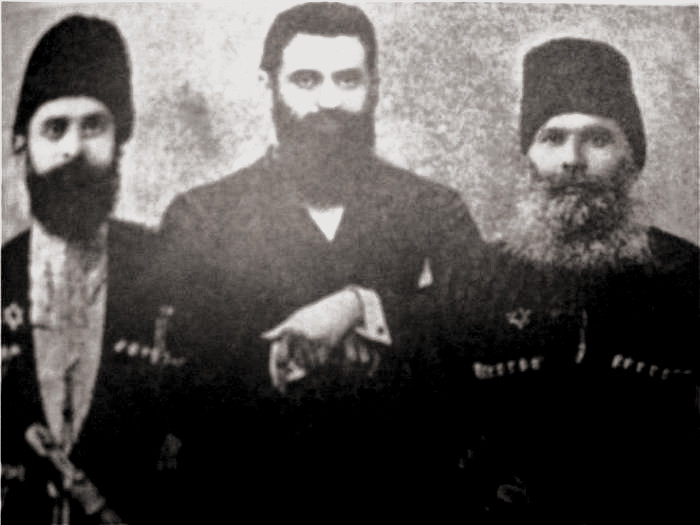 Mountain Jews (Juhuro) Delegates Matityahu Bogatirov and Shlomo Mordechaiov at The Fourth Zionist Congress with Theodor Herzl, 1900.